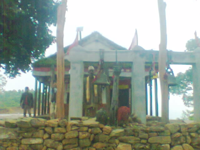 Temple of Vindrashaini